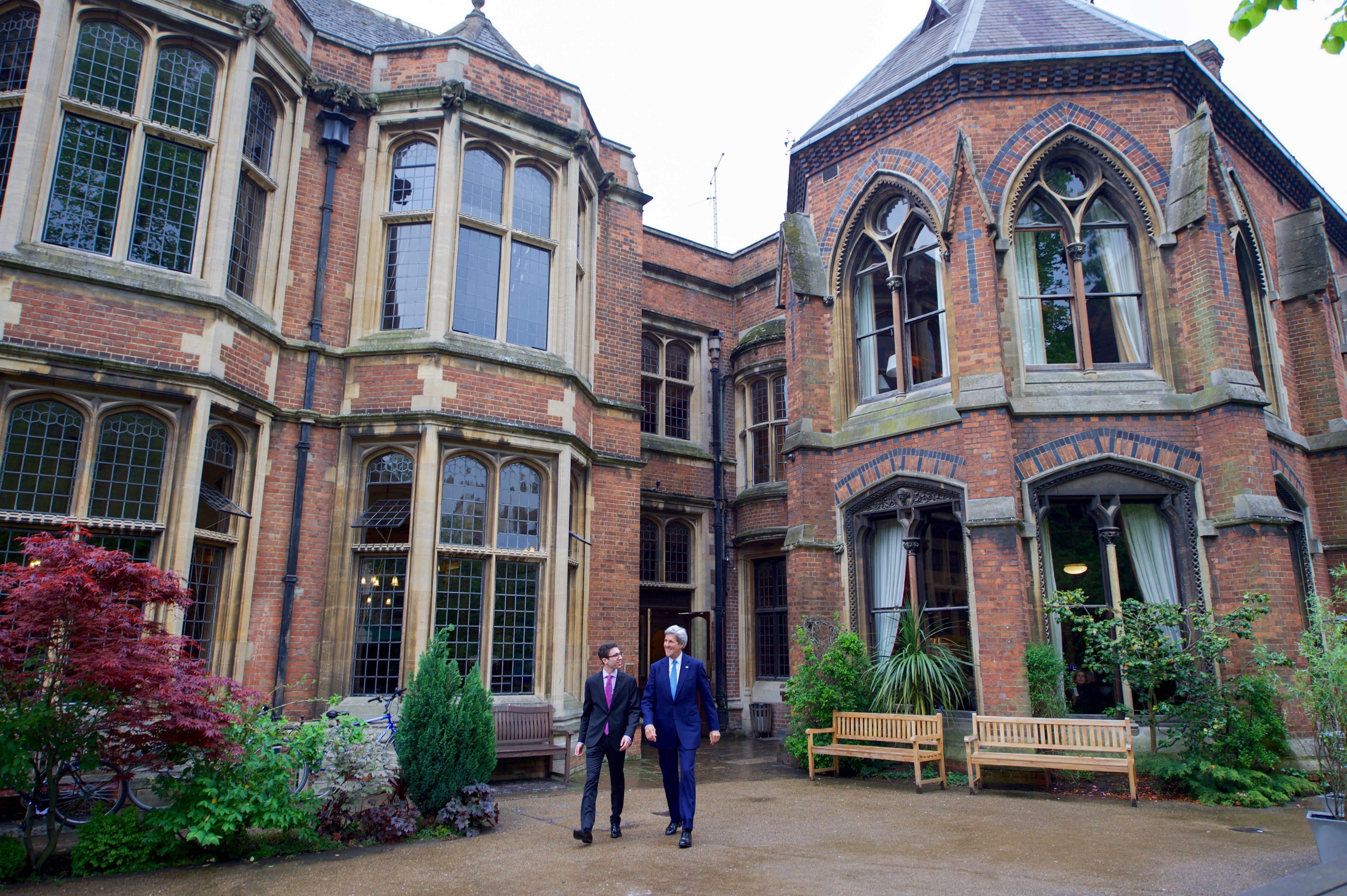 U.S Secretary of State John Kerry and Oxford Union President Robert Harris walk across the courtyard at the Oxford Union in Oxford, U.K., on May 11, 2016, before the Secretary delivered an address to the Union membership. [State Department photo/ Public Domain]